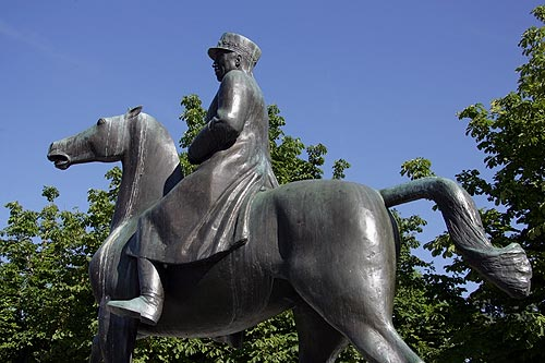 Equestrian statue of General Guisan by Otto Bänninger (1967), at Place Général Guisan, Ouchy, Lausanne, Switzerland